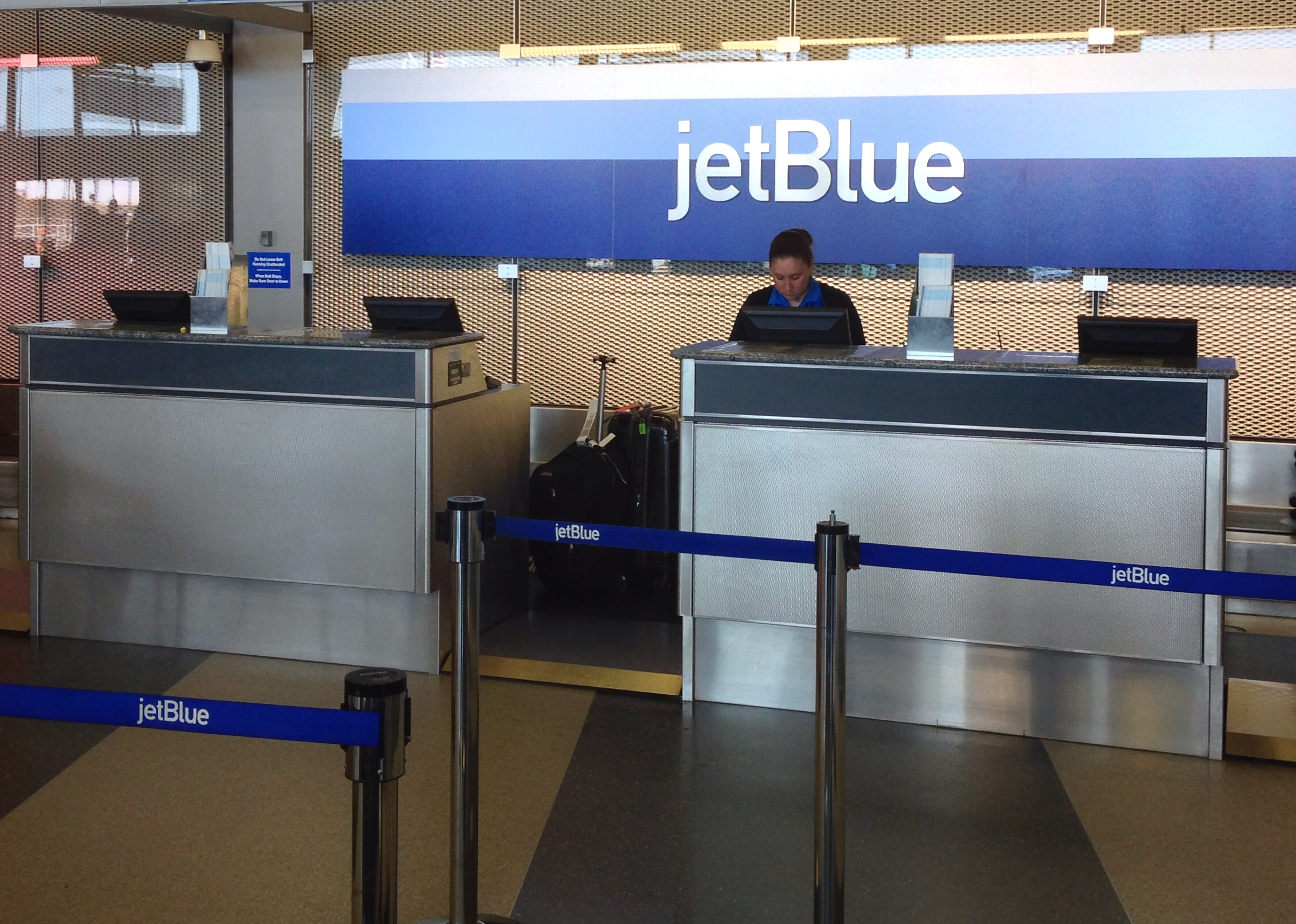 Jet Blue Check In, 10000 West O'Hare Ave, Chicago, IL 60666, USA - Jun 2014